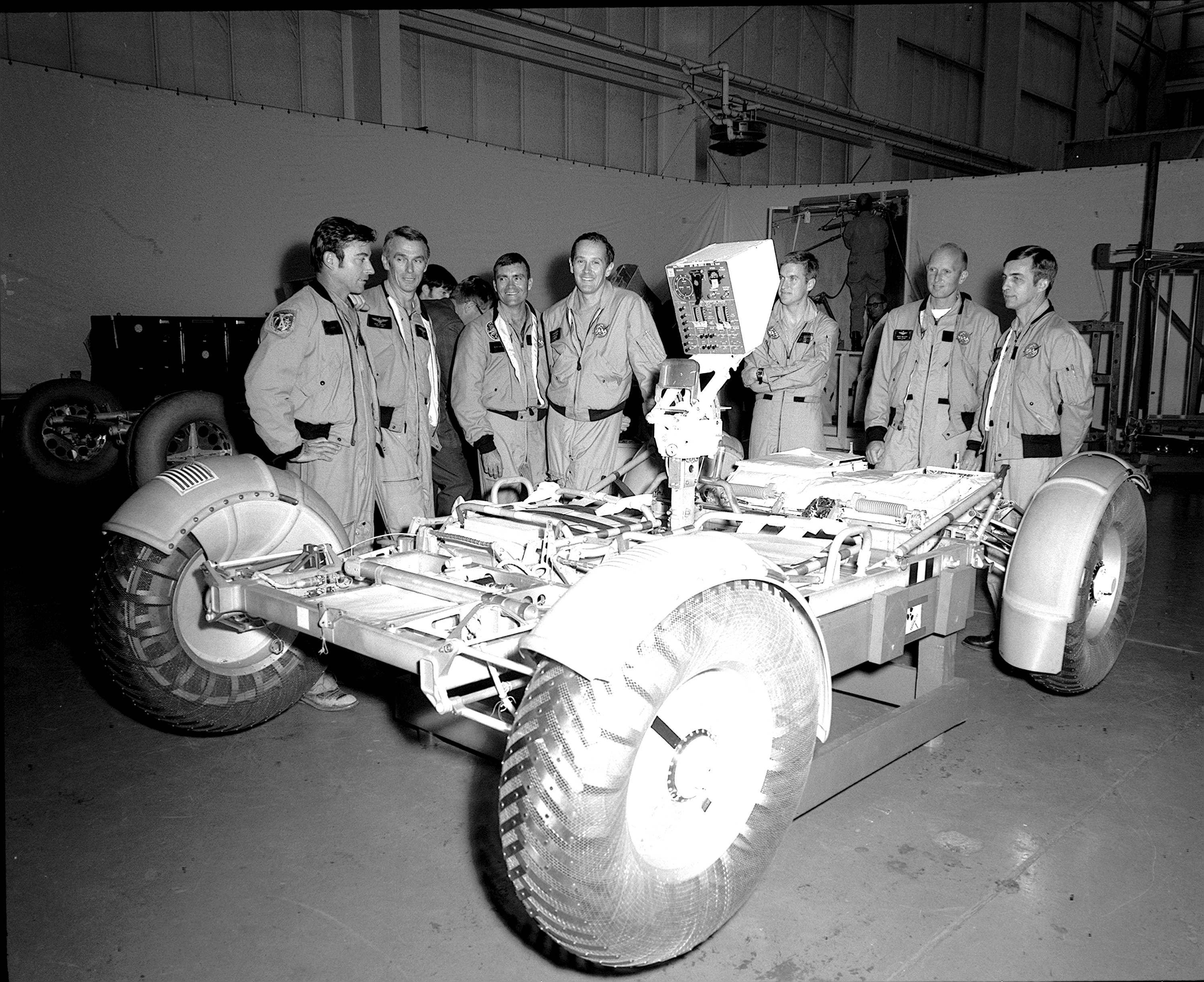 In this November 1971 photograph, (from left to right) Astronauts John Young, Eugene Cernan, Charles Duke, Fred Haise, Anthony England, Charles Fullerton, and Donald Peterson await deployment tests of the Lunar Roving Vehicle (LRV) qualification test unit in Building 4649 at the Marshall Space Flight Center (MSFC). The LRV, developed under the direction of the MSFC, was designed to allow Apollo astronauts a greater range of mobility on the lunar surface during last three lunar exploration missions, Apollo 15, Apollo 16 and Apollo 17.